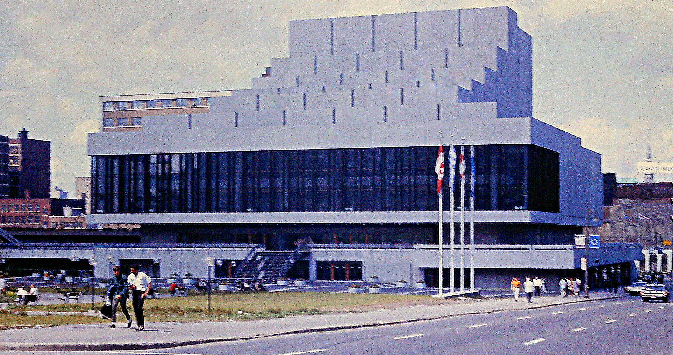 Maisonneuve Theatre, Place des arts, end of 1960's, in Montreal, Quebec.